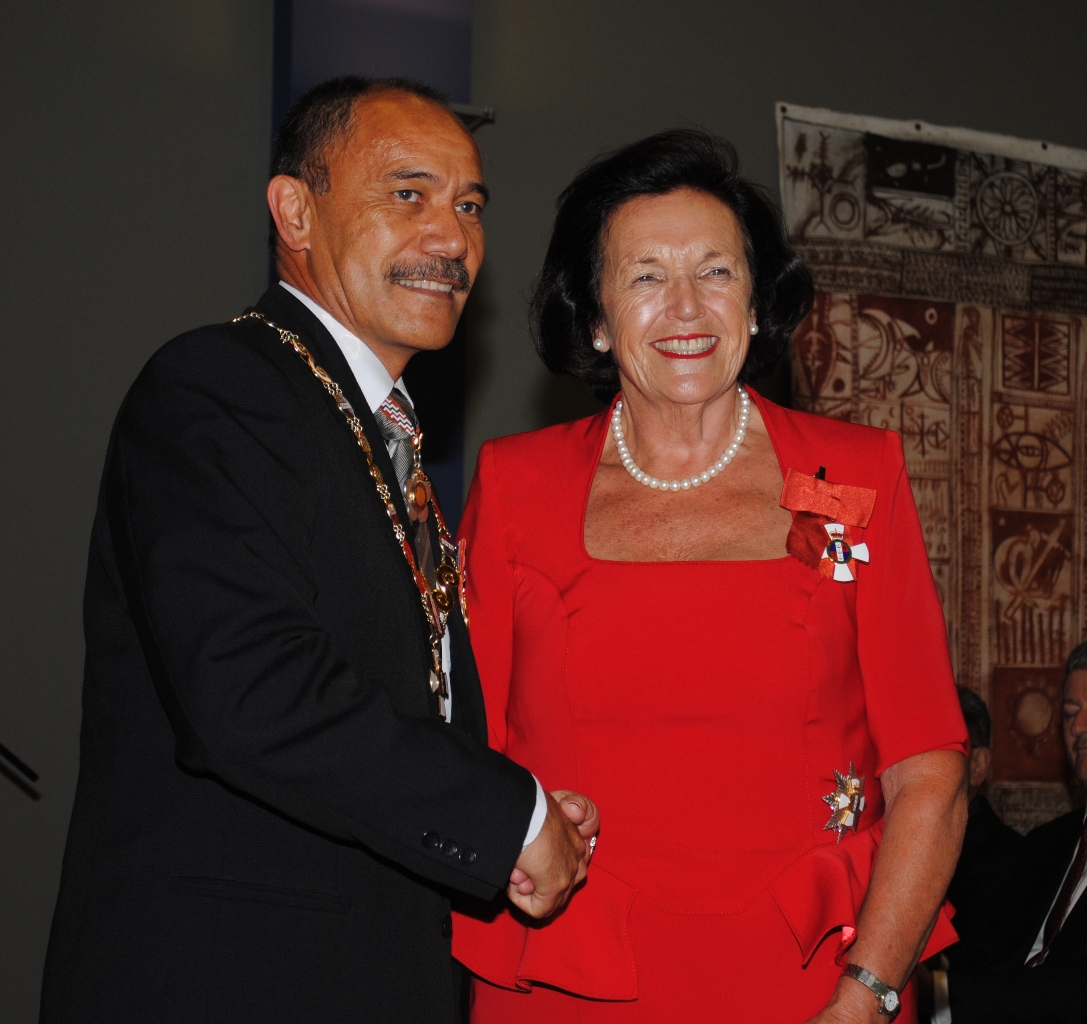 Rosanne Meo, after her investiture as DNZM for services to business, by the governor-general, Sir Jerry Mateparae, on 19 April 2012